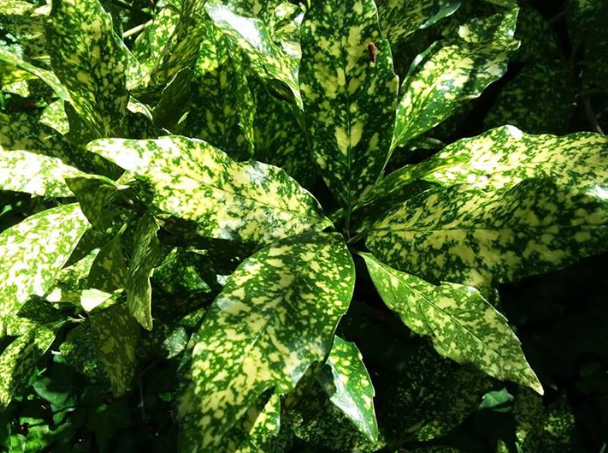 Acuba variegated leaves